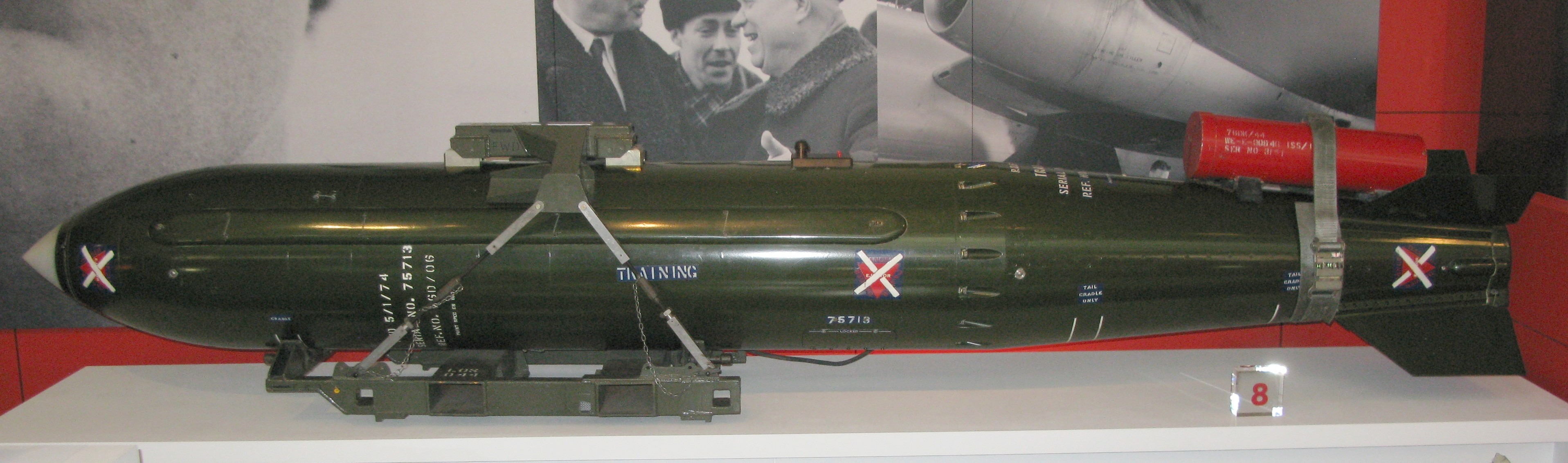 Photo of a WE.117 nuclear weapon training casing at the Science Museum